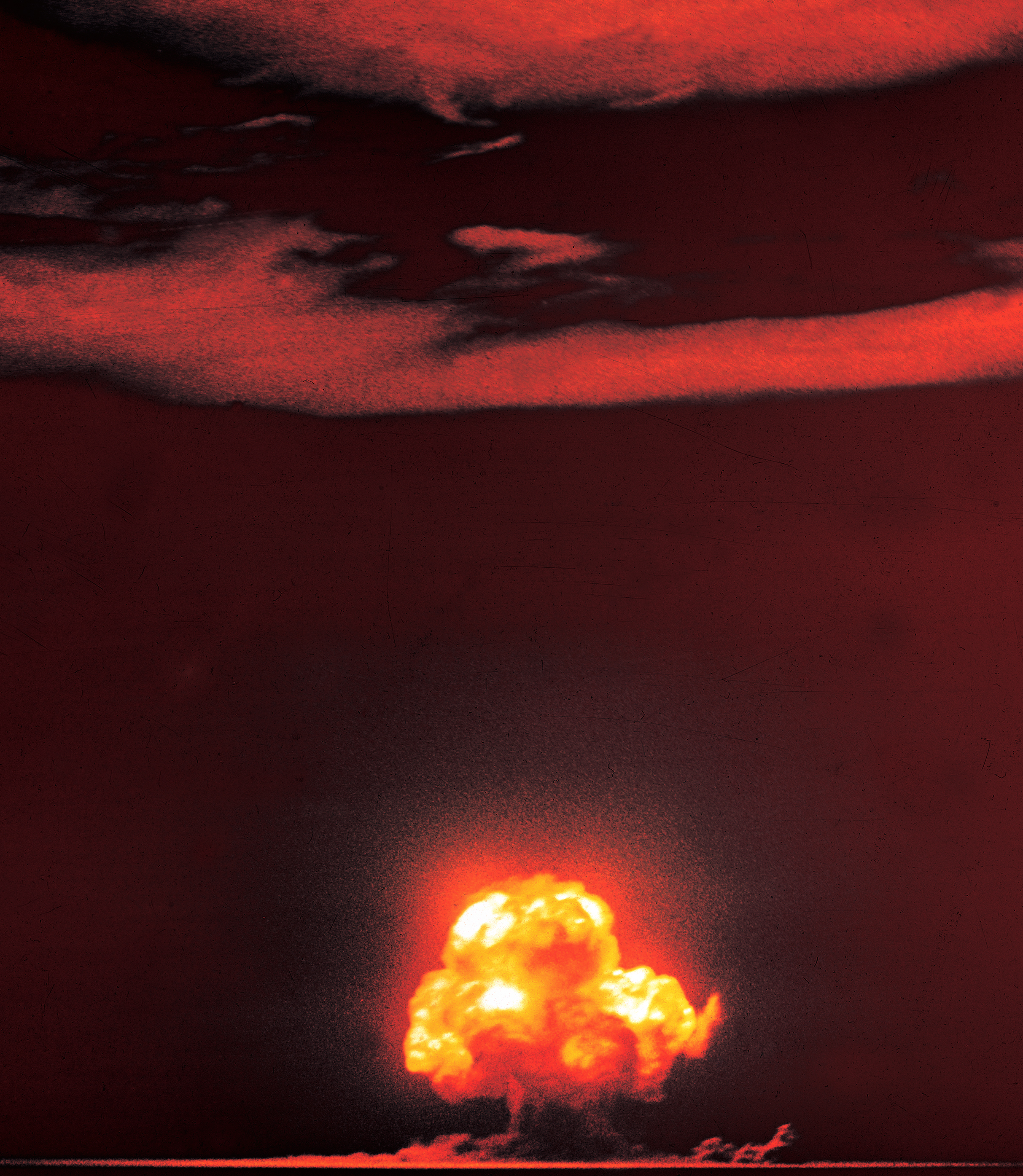 Famous color photograph of the "Trinity" shot, the first nuclear test explosion.